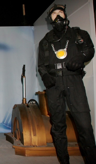 Props from the episode Doomsday where we see Rose Tyler leave Doctor Who. *sniffle* Doctor Who Experience